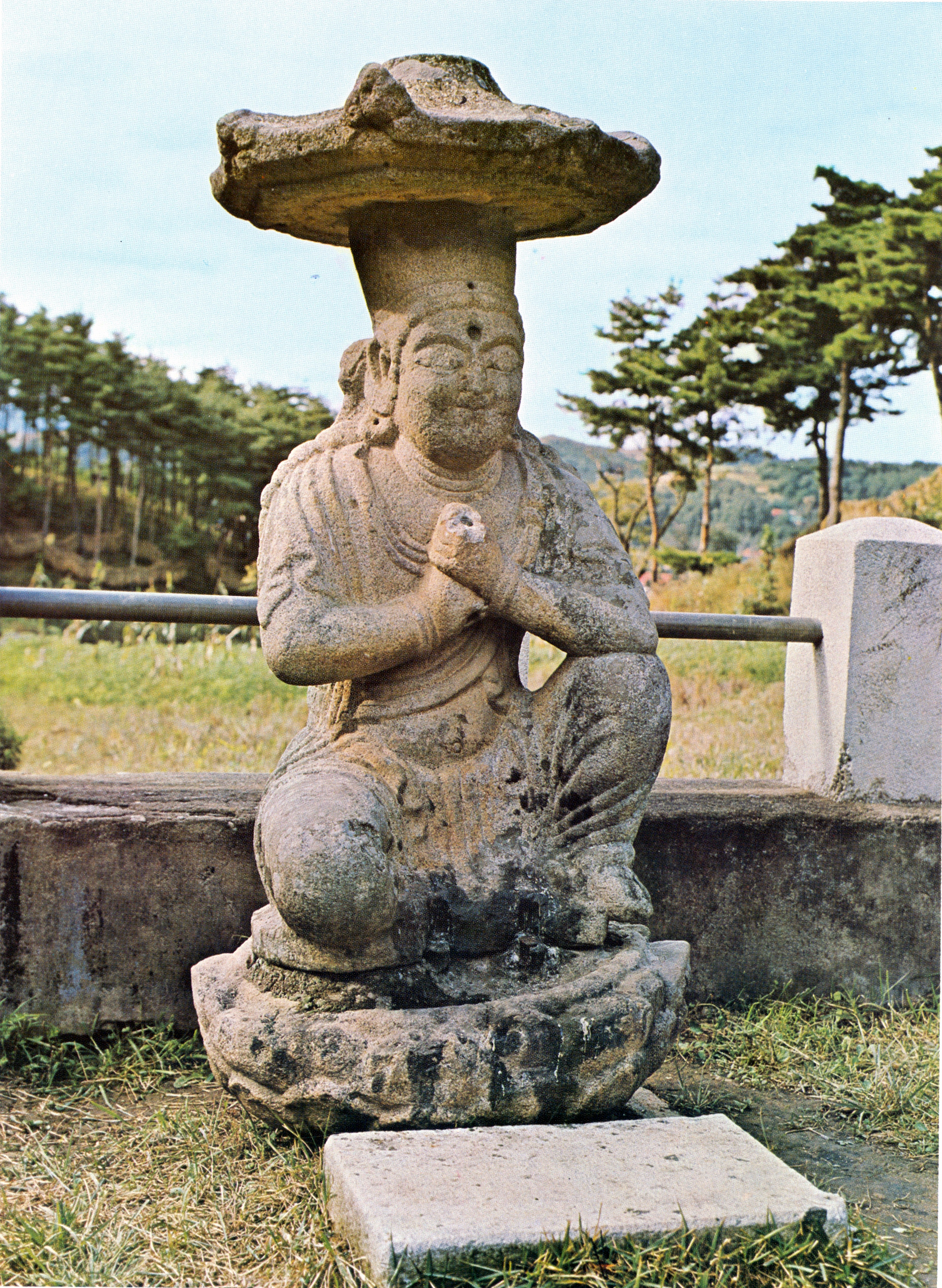 Seated Stone Bodhisattva at Sinboksa temple site in Gangneung, Korea